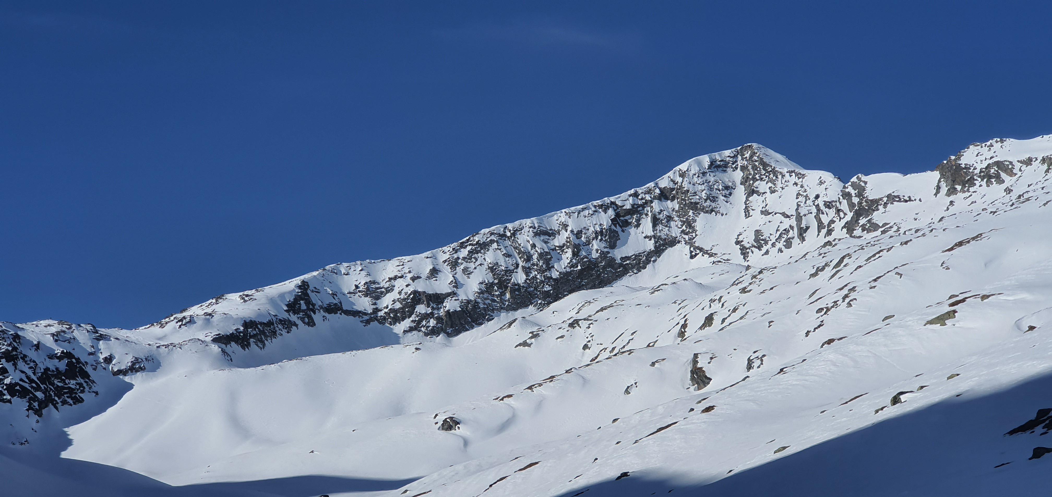 Pizz Gallagiun, picture taken from Val da Prasgnola (Bregaglia, Grisons, Switzerland / Sondrio, Lombardy, Italy)